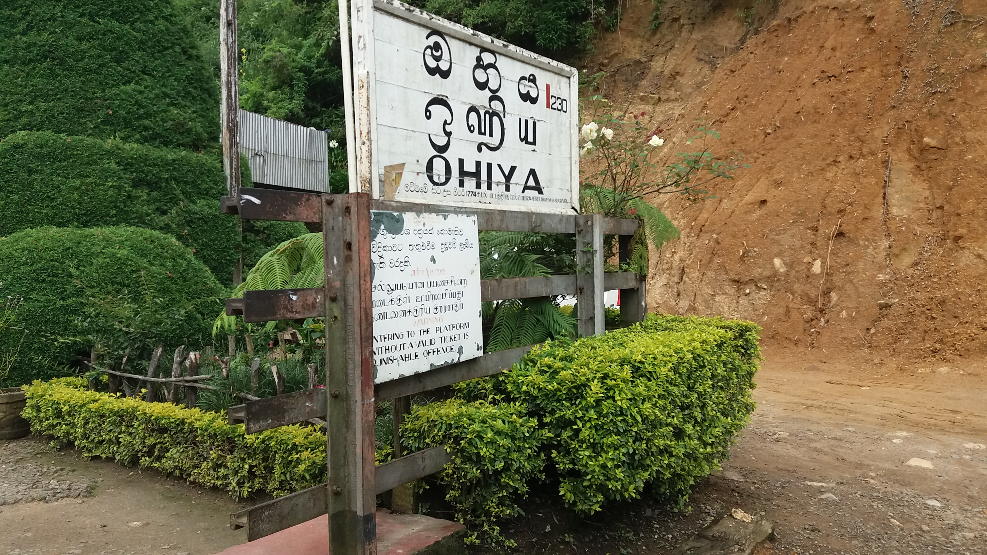 Ohiya Railway Station, Hatton, Sri Lanka. One of the Best Railway Station at the top of the up country.